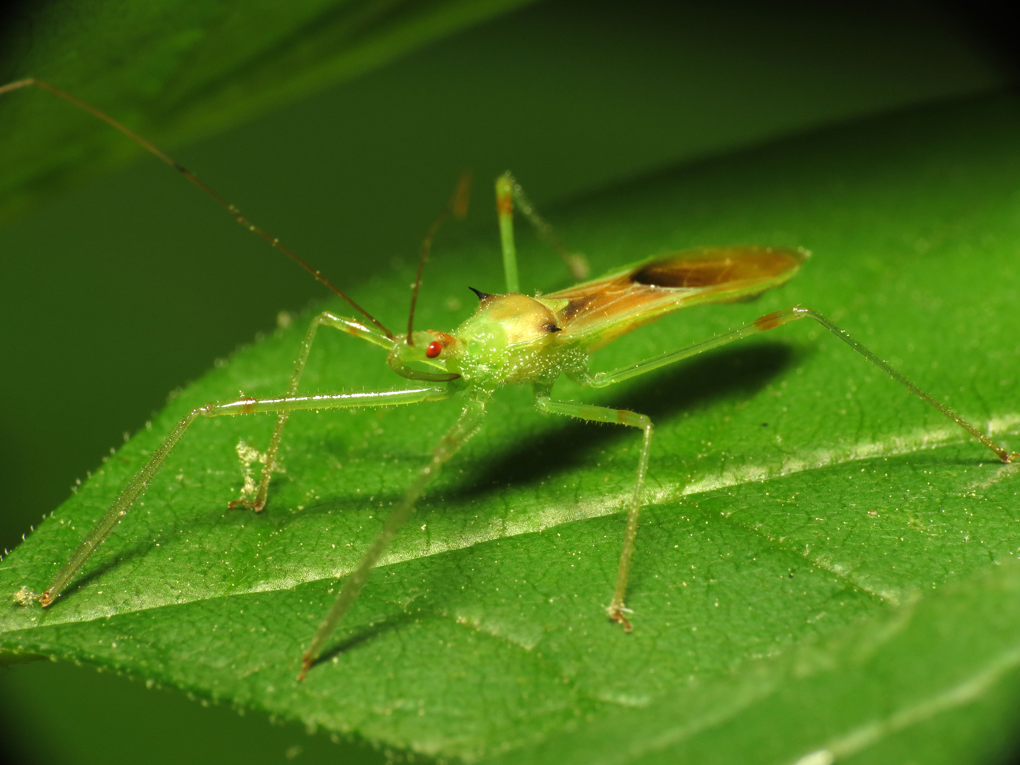 Zelus luridusRock Creek Park, Washington, DC, USA. 25 May 2014.